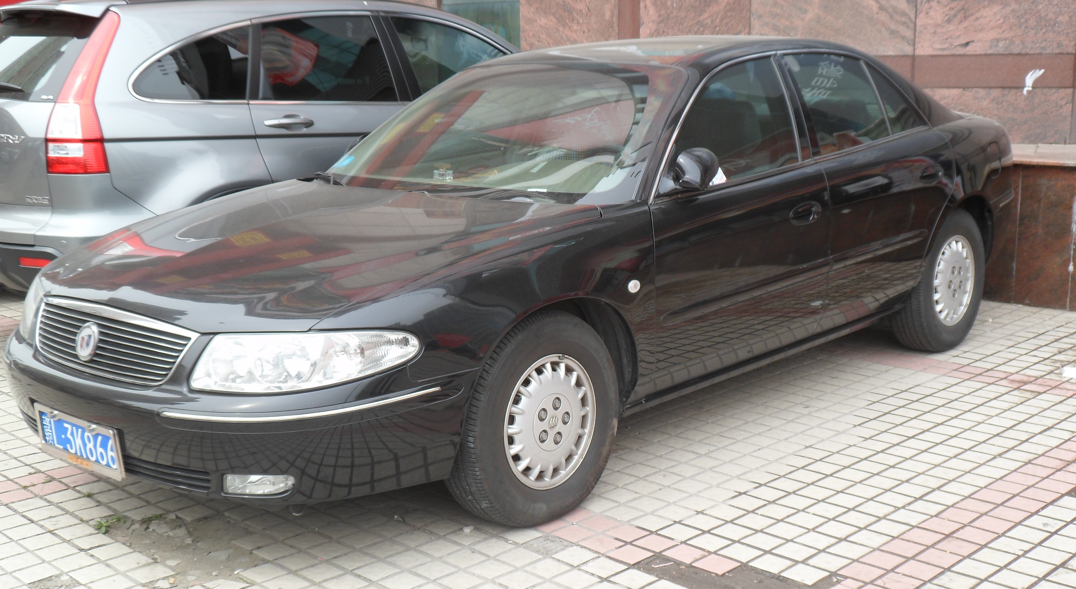 Buick Regal CN photographed in Shanghai, China.